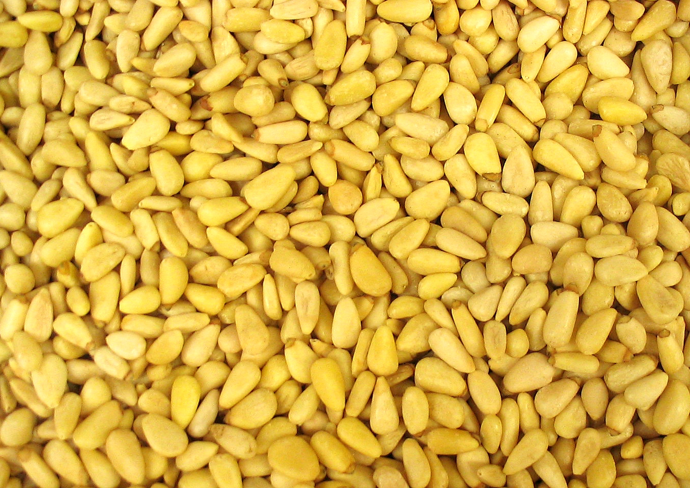 Pine nuts